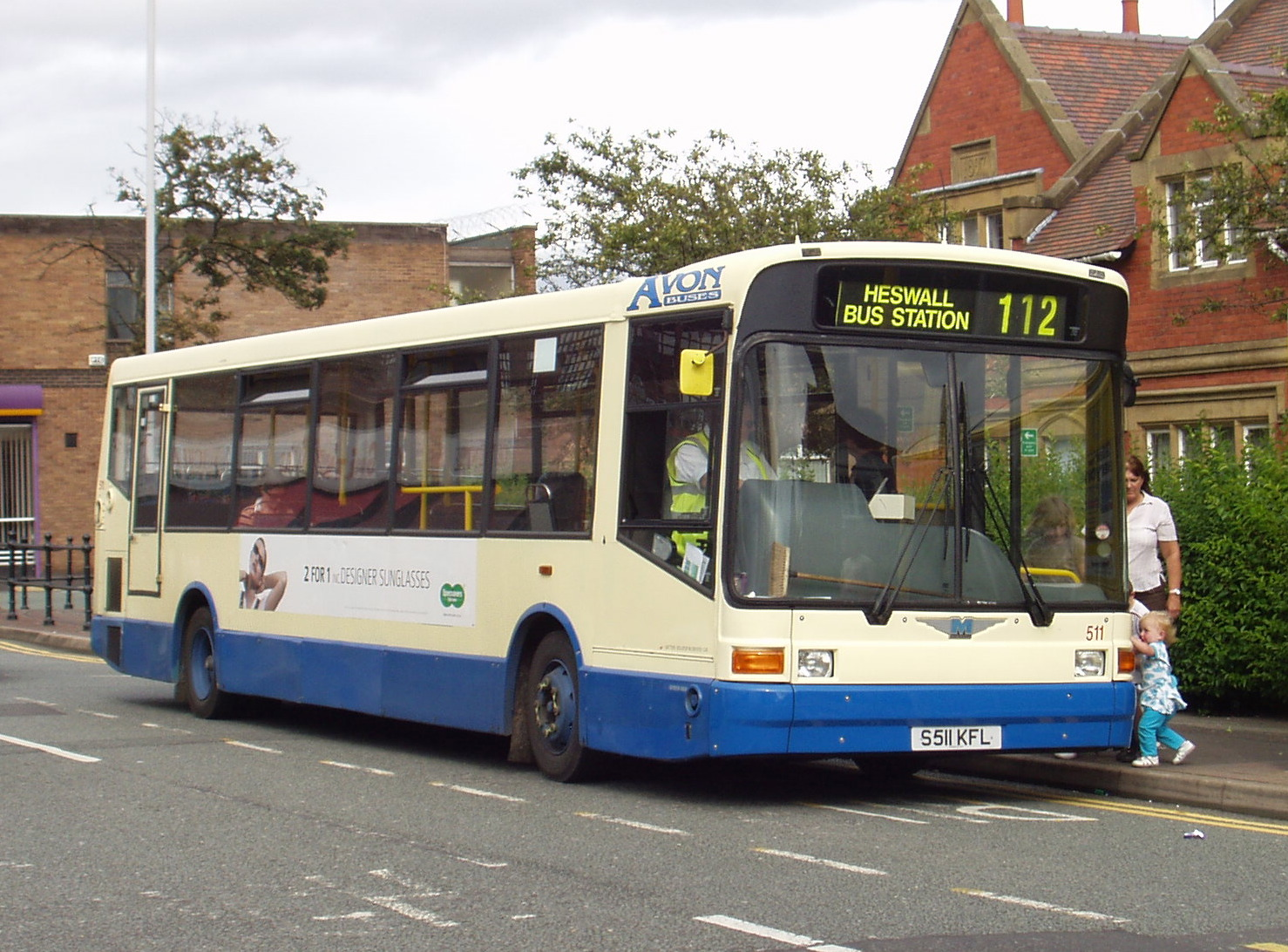 Dennis Dart SLF with Marshall Capital bodywork, operated by Avon Buses on the Wirral, Merseyside.